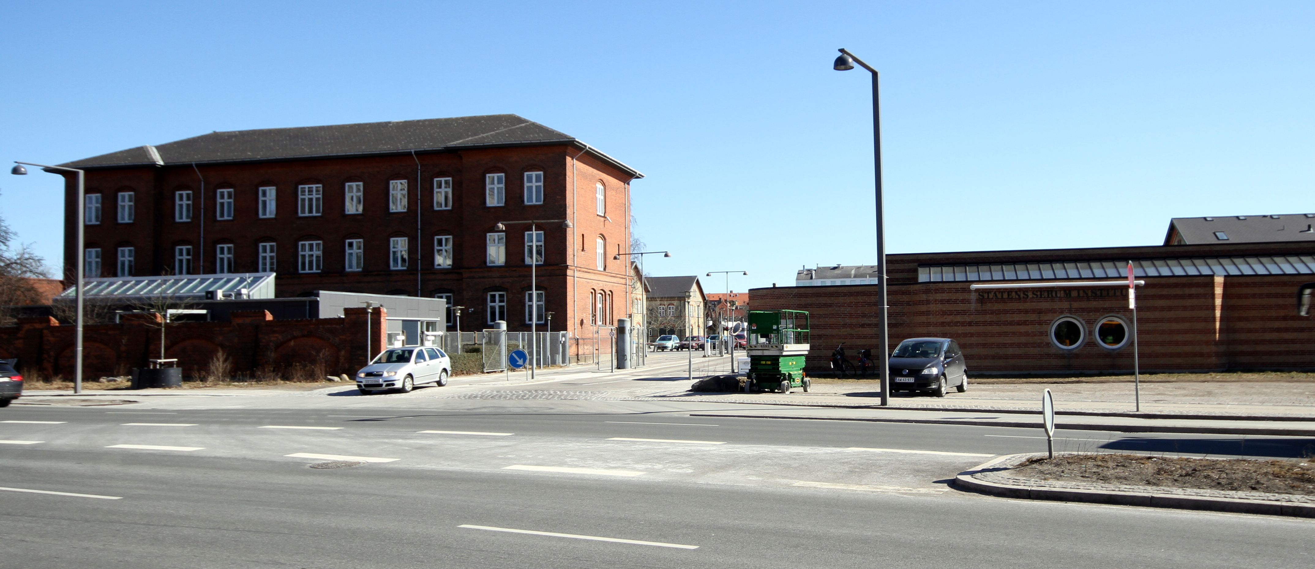 Place at Islands Brygge in Copenhagen